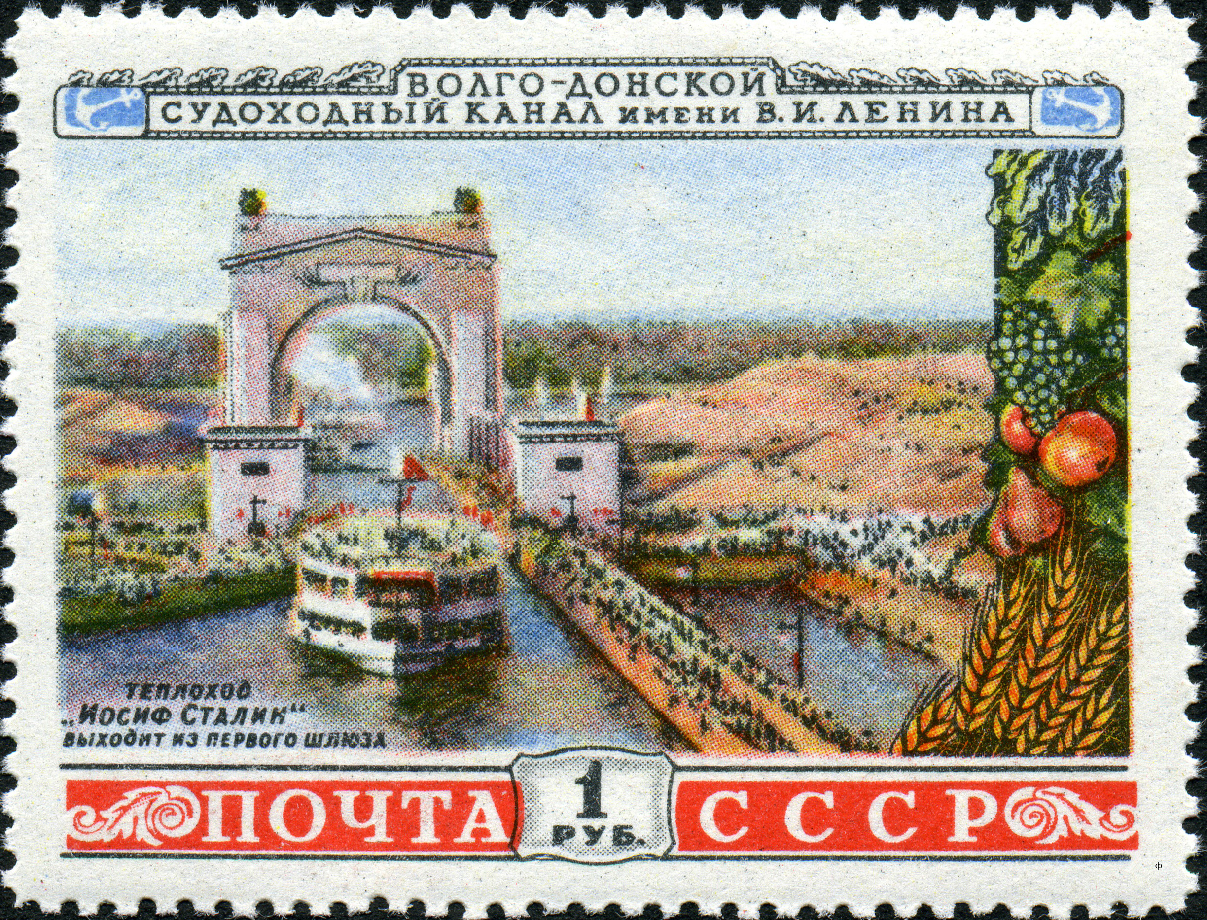 Stamp of the Soviet Union, 1953. Volga-Don Canal and motor ship "Joseph Stalin". CPA #1726.